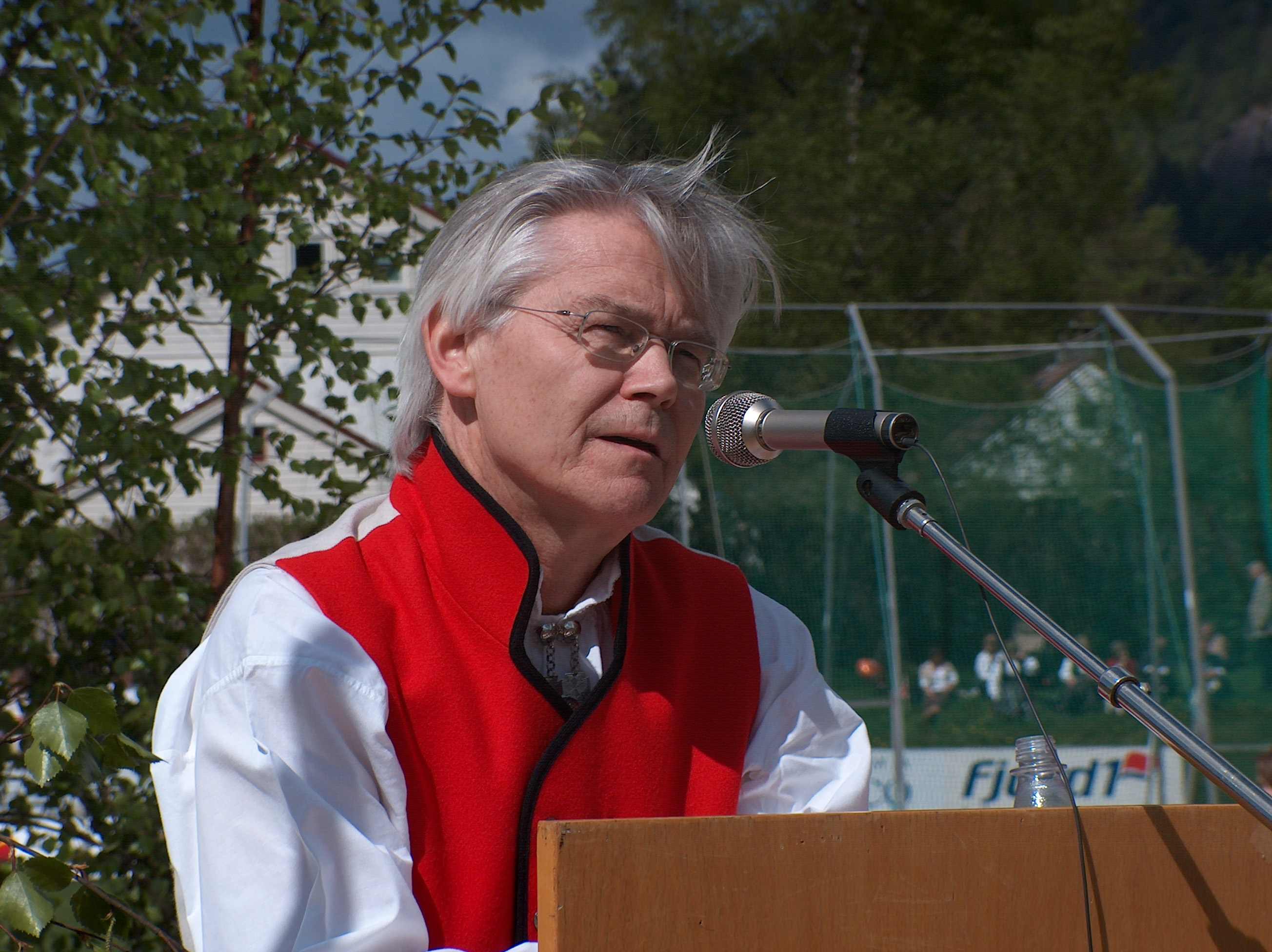 Norwegian philologist Sylfest Lomheim, wearing a traditional Norwegian costume.